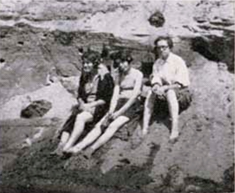 Captioned "Dryads of the Rocks," published in the 1924–1925 Sturgeon Bay High School yearbook